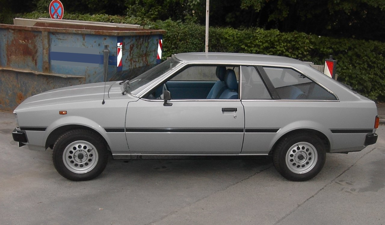 1980 Toyota Corolla Liftback 1.6DX (TE71), european version